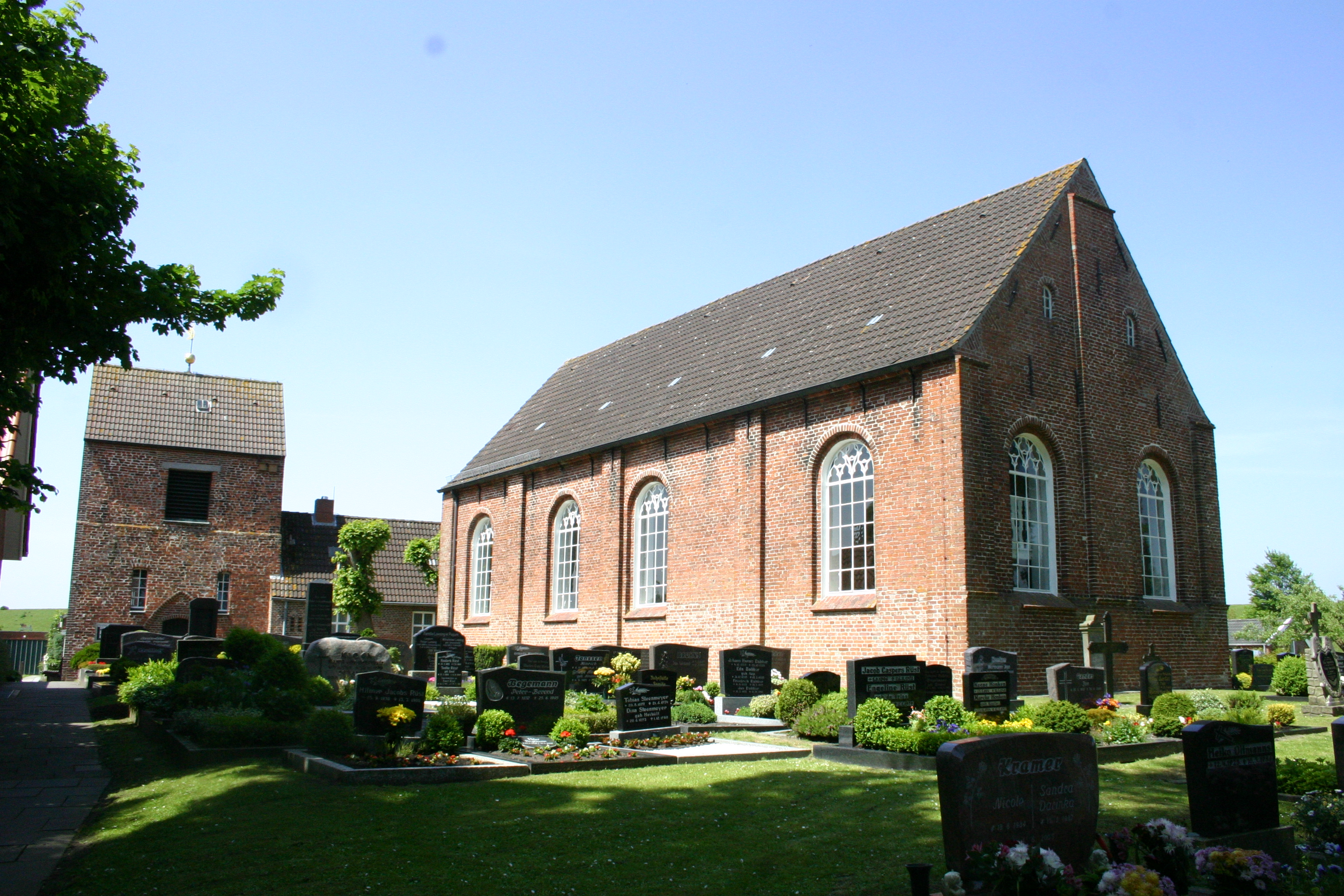 Historic church in Pogum, district of Leer, East Frisia, Germany